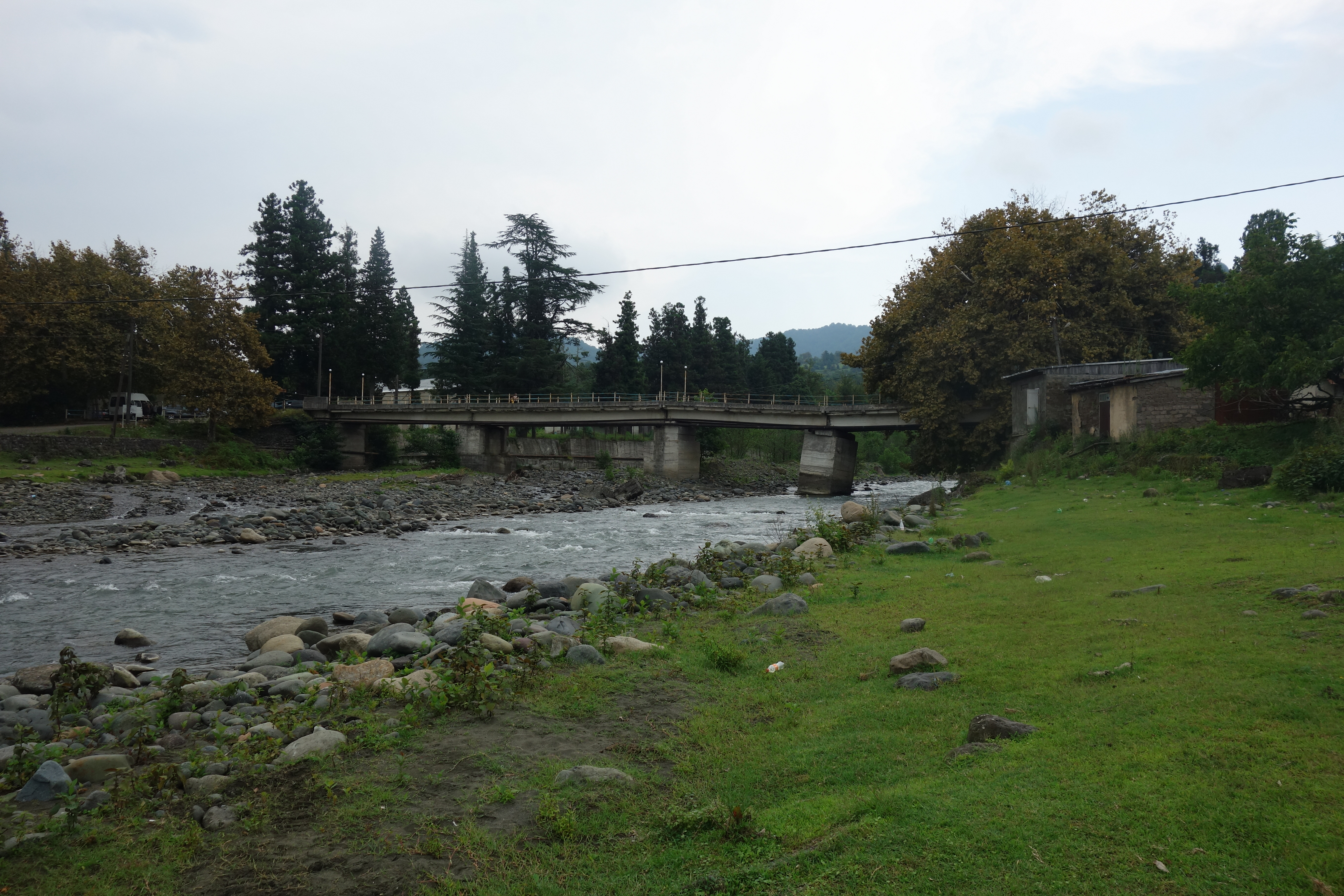 Khidistavi, Nodar Dumbadze Bridge, August 2016; damaged by floodings in spring 2016